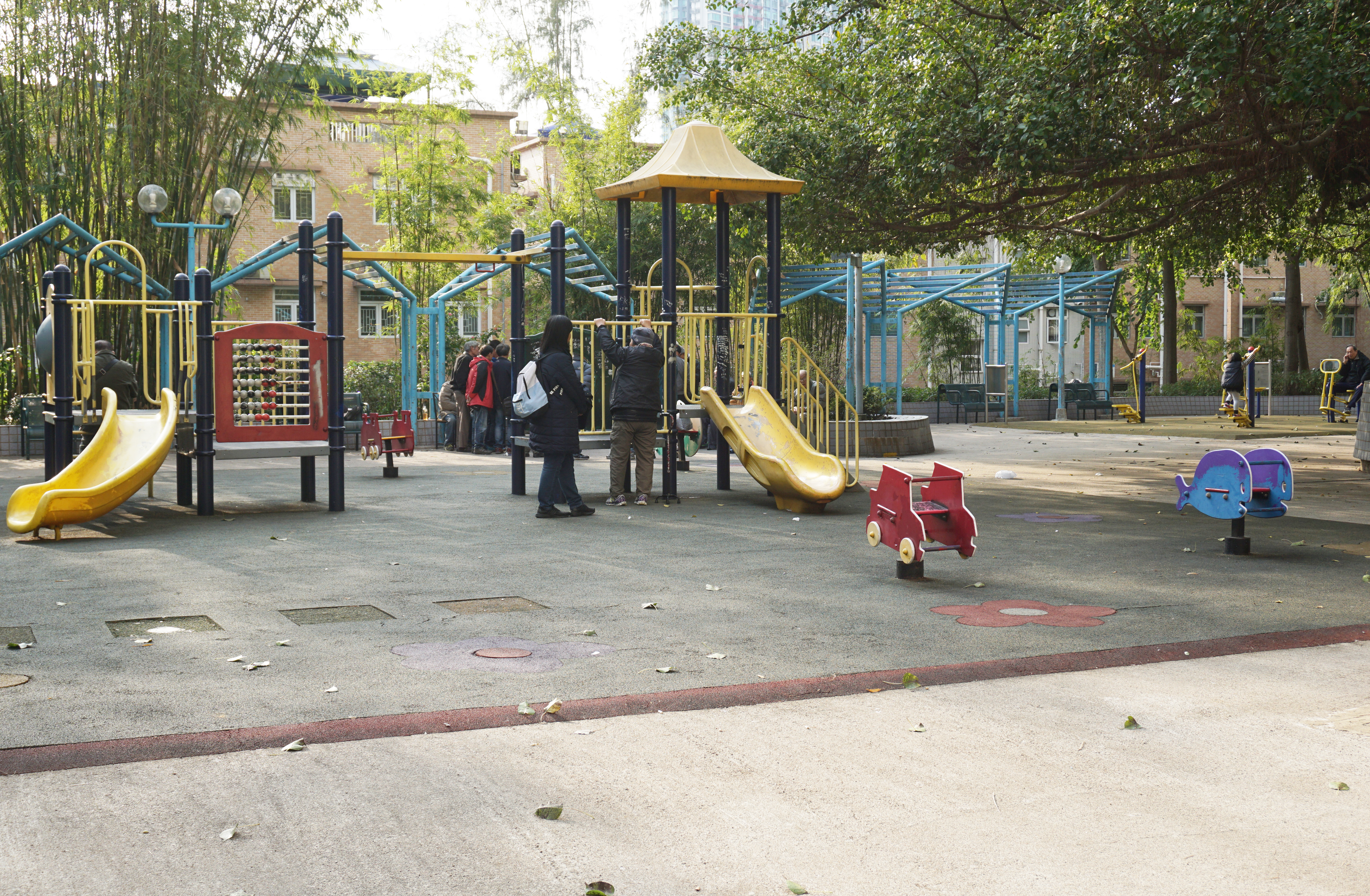 Pok Hong Estate in Sha Tin Wai, Hong Kong.